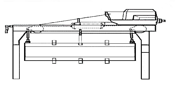 one of the type of dobby looms